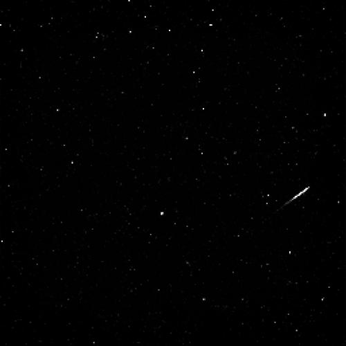 The image was taken on November 09, 2009 and received on Earth November 10, 2009. The camera was pointing toward BESTLA, and the image was taken using the CL1 and CL2 filters. This image has not been validated or calibrated.